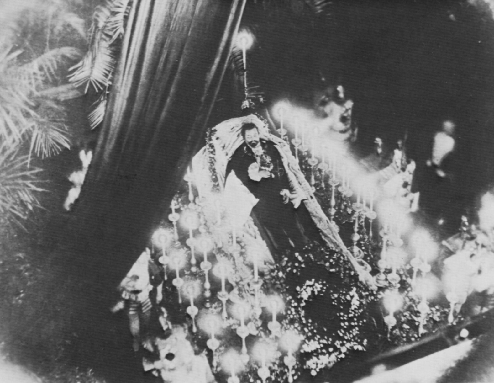 last photo of Ludwig II of Bavaria